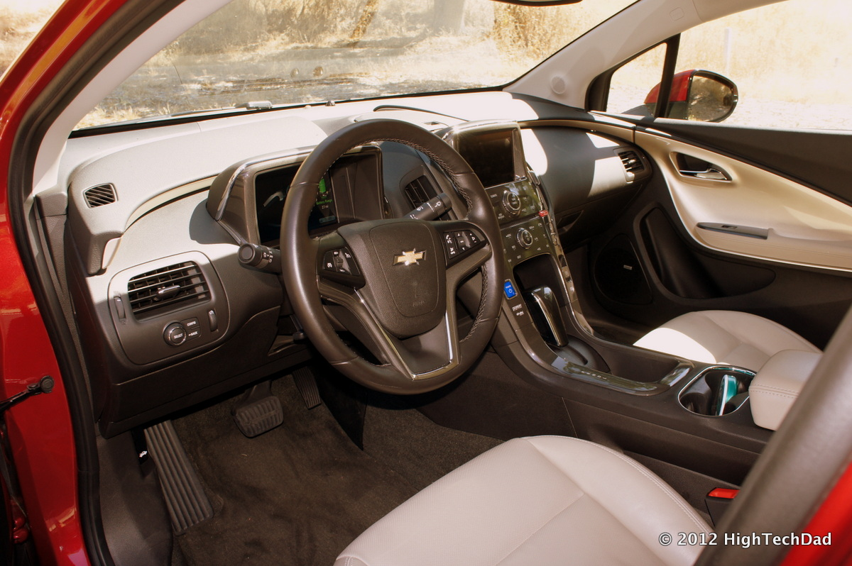 Photos from a 7-day test drive of the 2012 Chevy Volt. More information can be found at